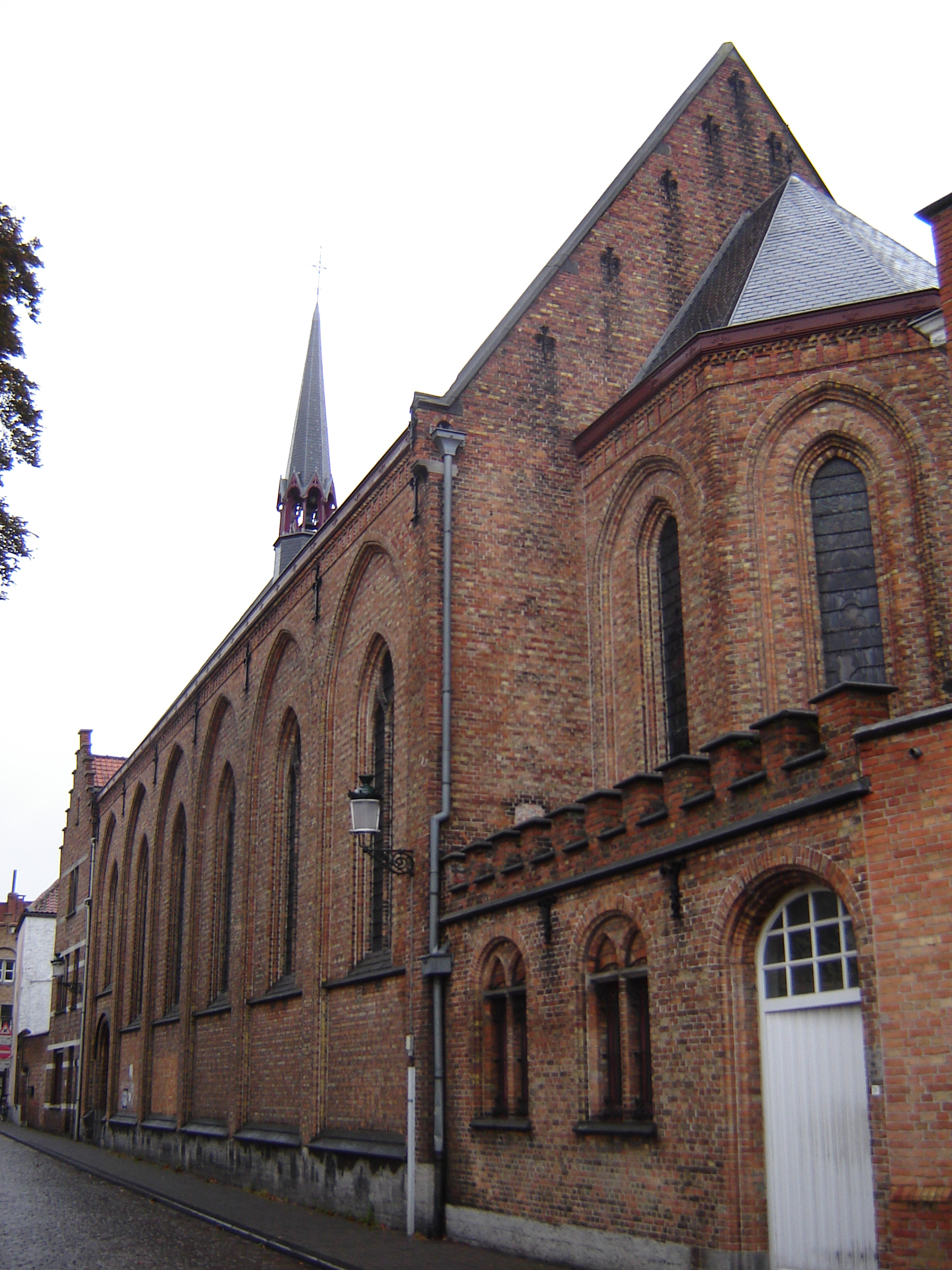 Church of Holy Family in Brugge. Brugge, West Flanders, Belgium